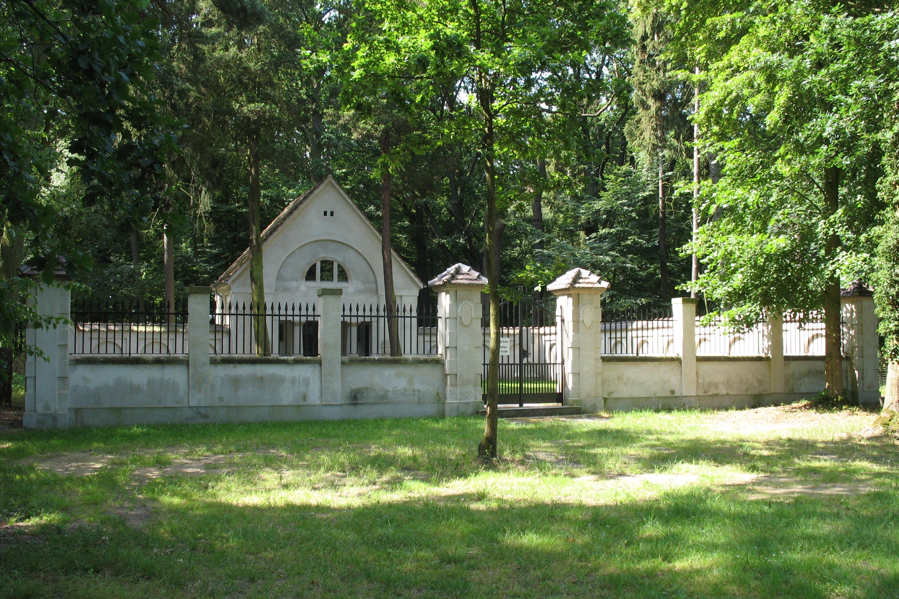 Rochow graves in Reckahn (municipality Kloster Lehnin) in Brandenburg, Germany